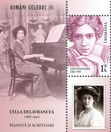 Famous Romanians, part II